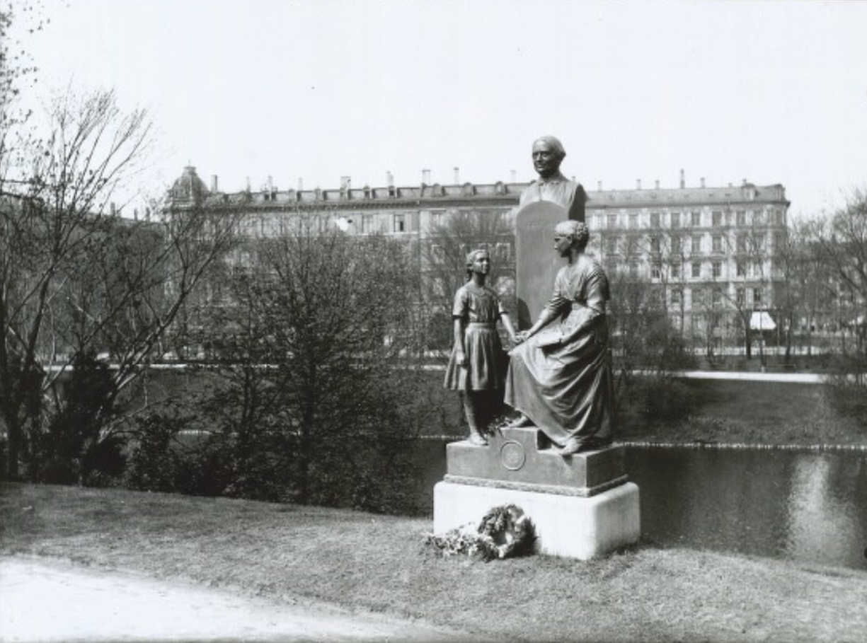 Natalie Zahle Memorial in Ørstedsparken in Copenhagen, Denmark